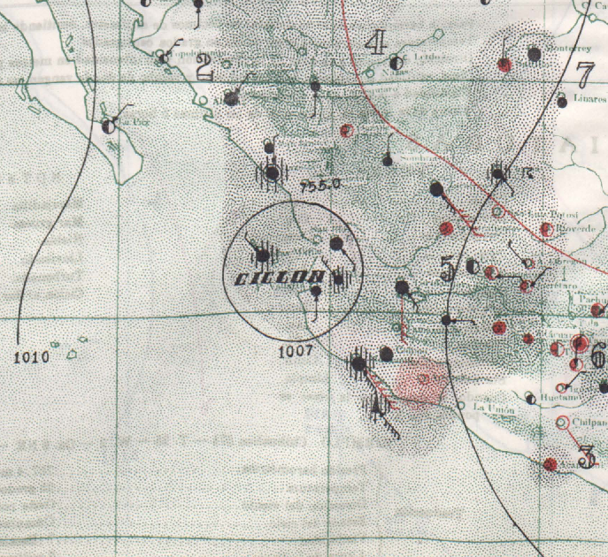 Surface analysis of an intense tropical cyclone making landfall on the western coast of Mexico on October 25, 1939.